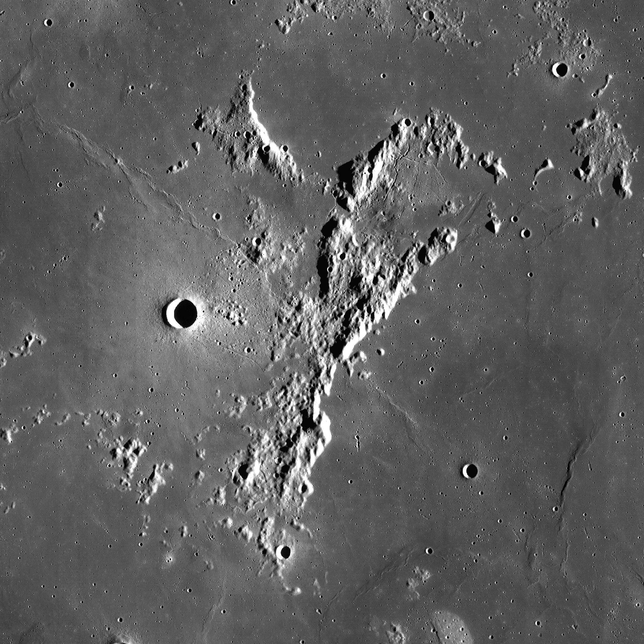 Montes Riphaeus on the Moon. Mosaic of photos by Lunar Reconnaissance Orbiter, made with Wide Angle Camera. Size of the image is 250×250 km, north is approximately up.